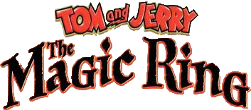 Official header of animated film Tom and Jerry: The Magic Ring.